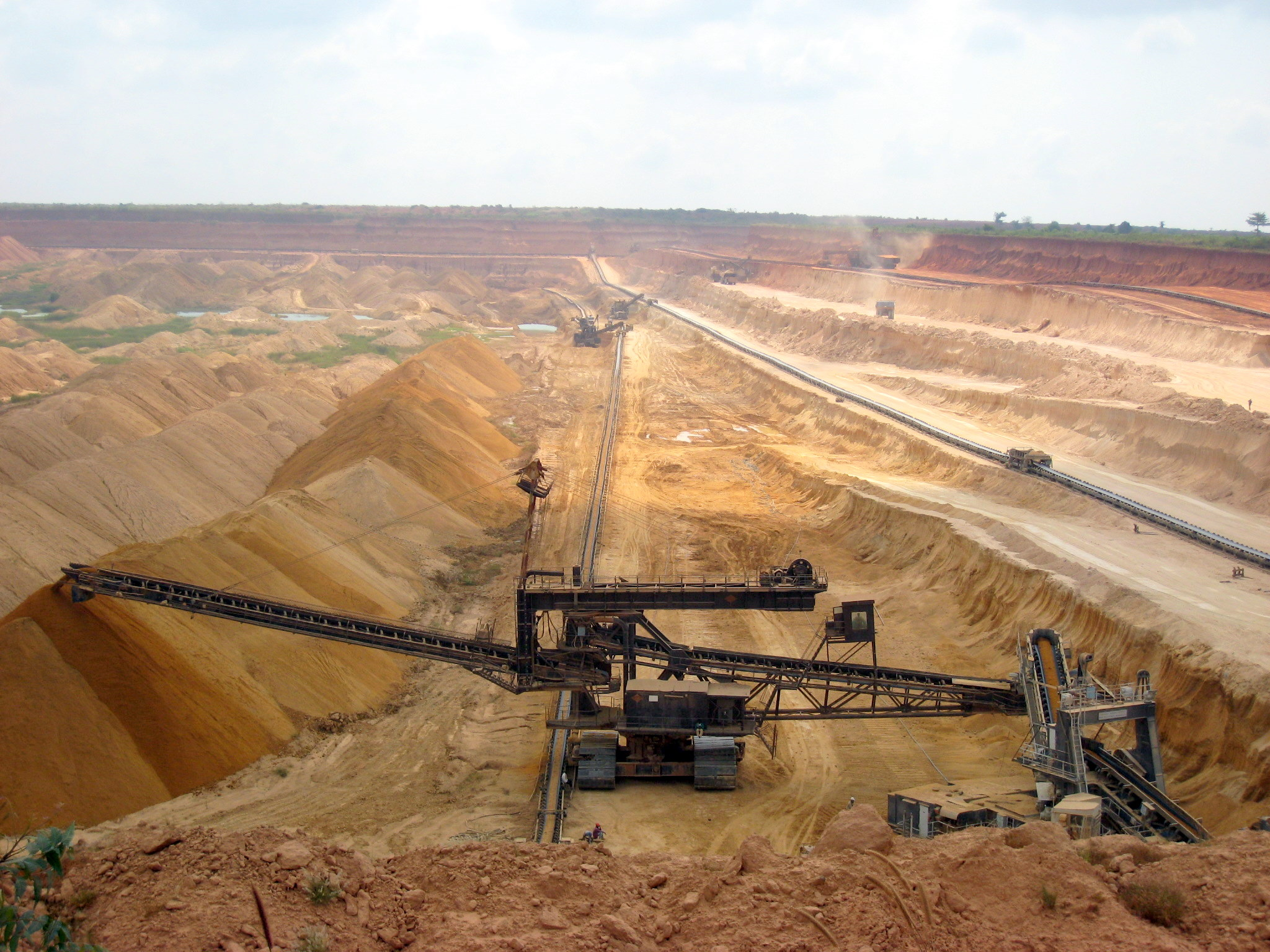 Phosphate Mining at SNPT (Societe Nouvelle des Phosphates de Togo), 2007-12-02